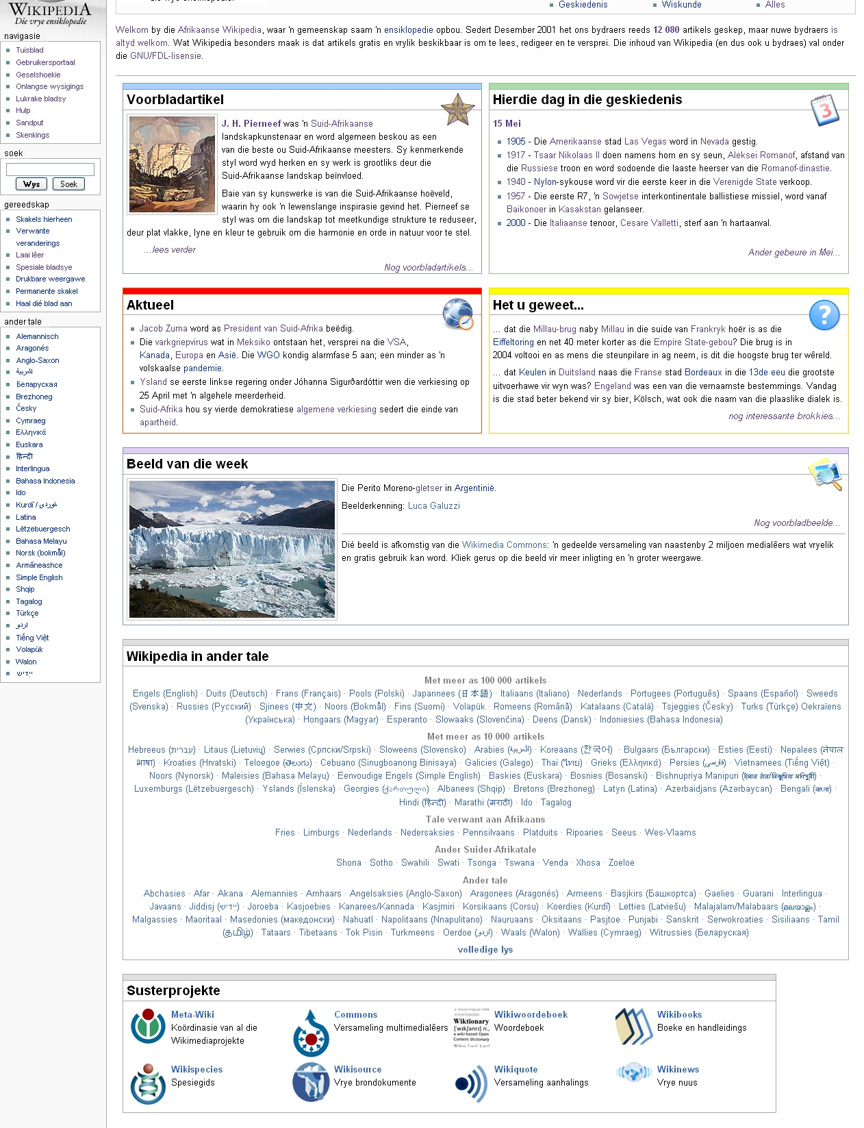 Die front page of the Afrikaans Wikipedia